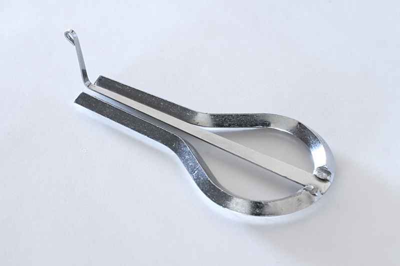 Image of a a jew's harp, photographed by myself (LoganCale, Jan. 2006)